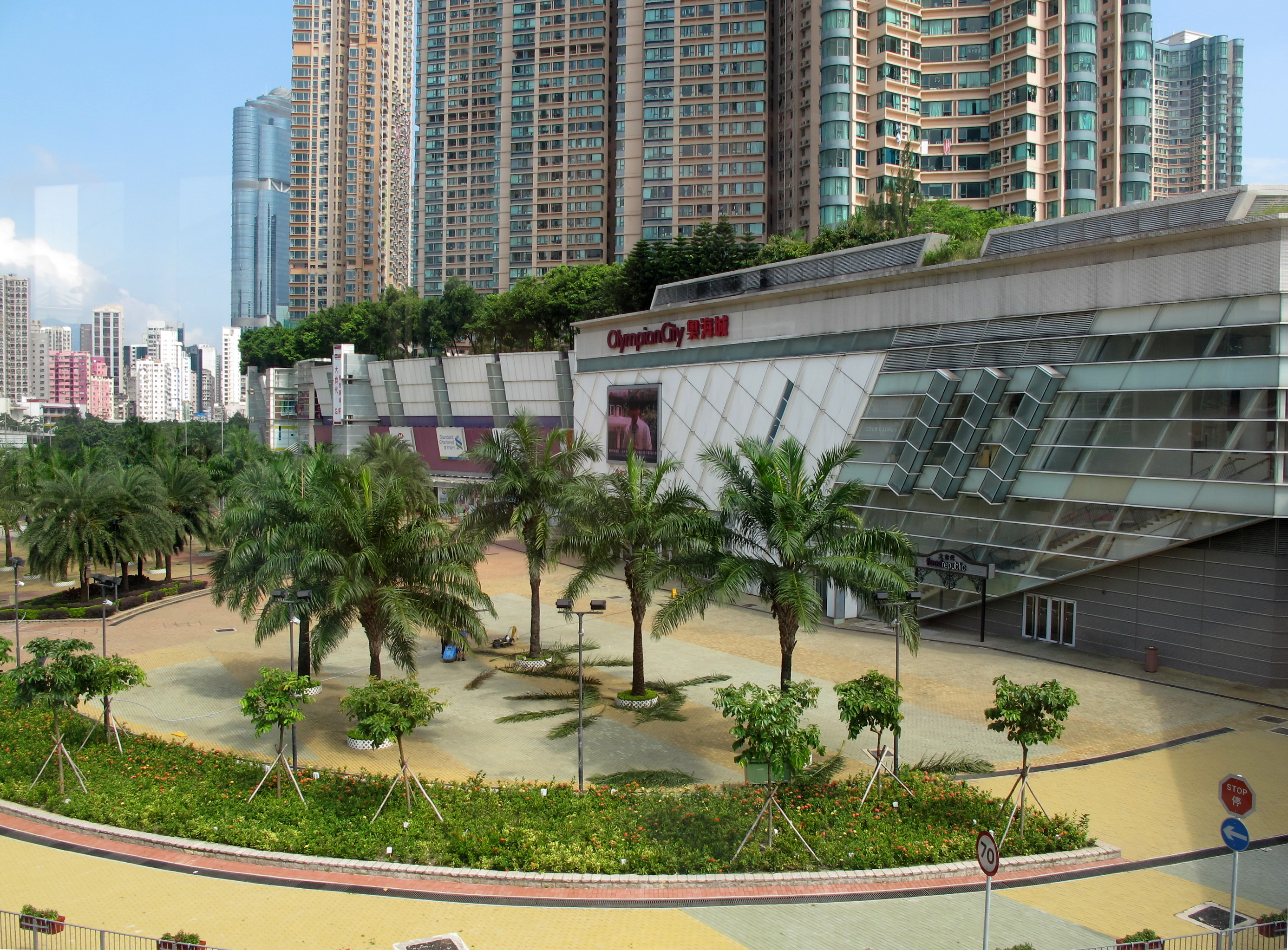 Olympian City Phase 2 Outside